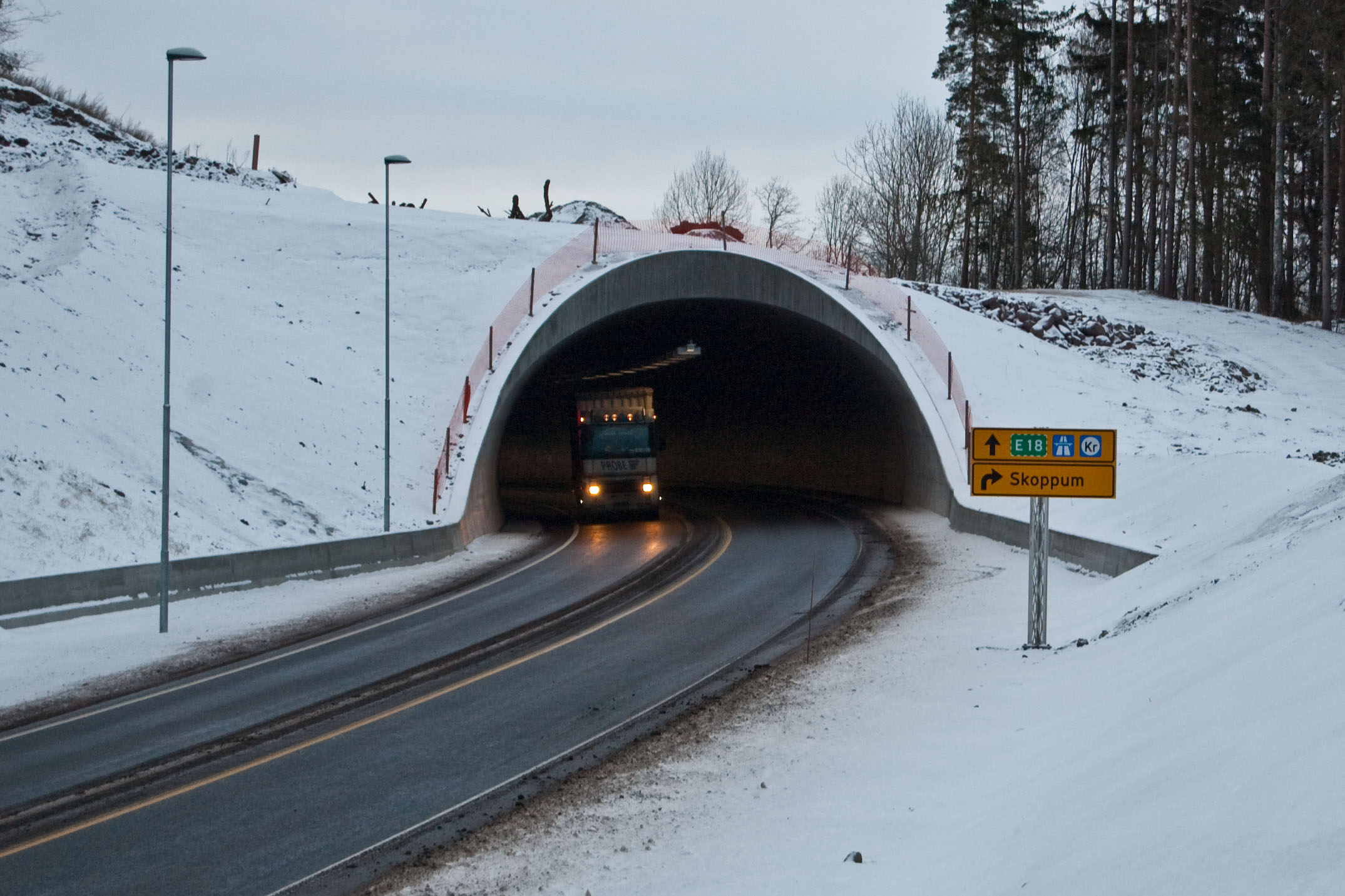 Lørge tunnel, part of national road 19, Vestfold, Norway